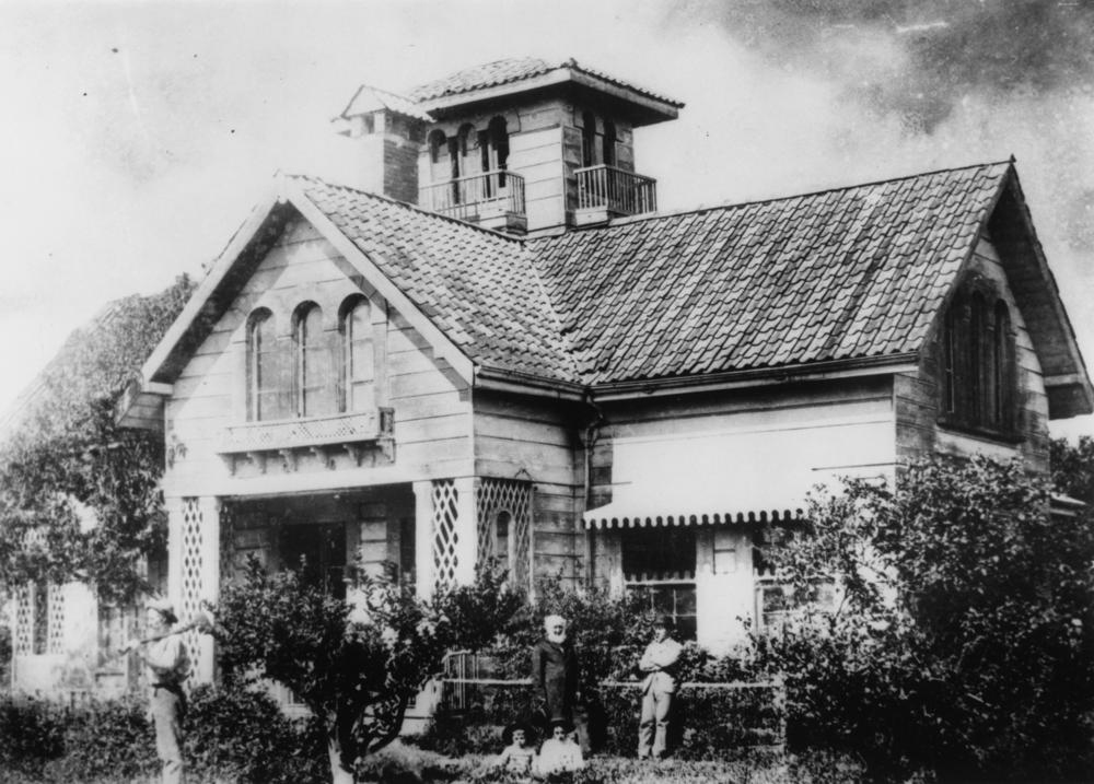 Dunmore House on River Road (now Coronation Drive near Lang Parade), Auchenflower Brisbane, Queensland, Australia, home of Robert Cribb MLA, circa 1886